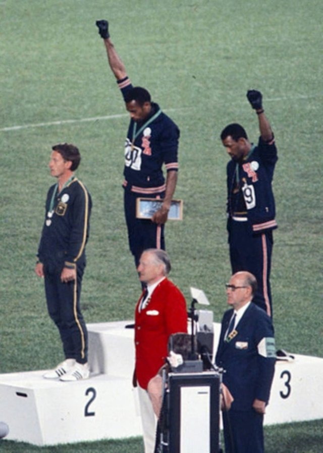 American sprinters Tommie Smith and John Carlos, along with Australian Peter Norman, during the award ceremony of the 200 m race at the Mexican Olympic games. During the awards ceremony, Smith (center) and Carlos protested against racial discrimination: they went barefoot on the podium and listened to their anthem bowing their heads and raising a fist with a black glove. Mexico City, Mexico, 1968.